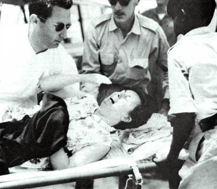 Original caption states: "U.S. Air Force photo" and "A Belgian woman in hysterics as she is transported to a departing C-130". Picture is from the hostage rescue operation known as Dragon Rouge, in what is now the Democratic Republic of the Congo in late November 1965.